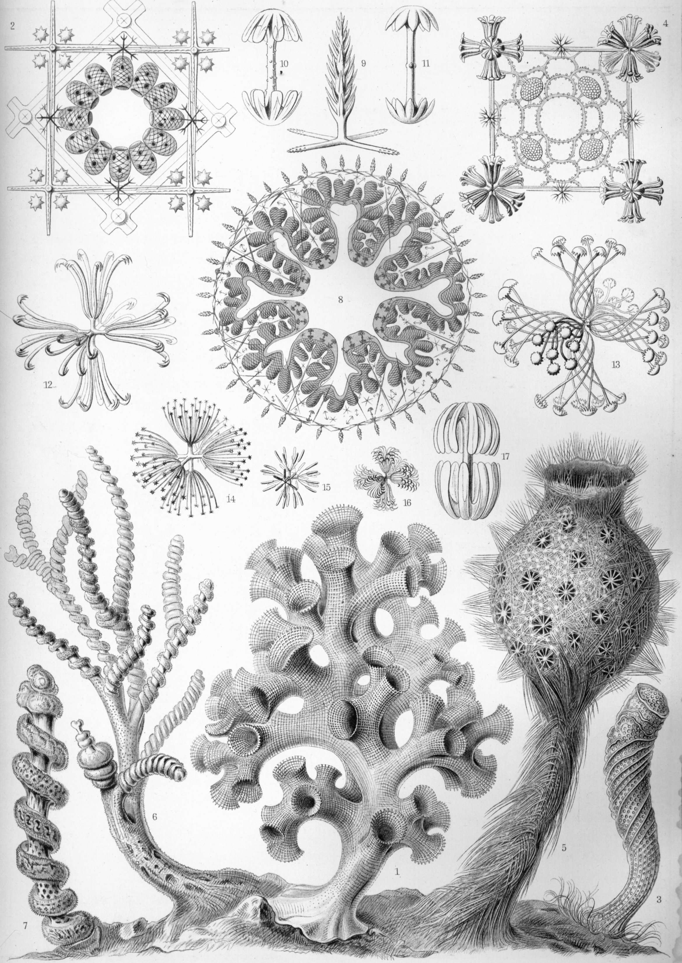 View large image for index to numbers. Farrea Haeckelii (Franz Eilhard Schulze) = Farrea occa Bowerbank, 1862, habitus Farrea Haeckelii (Franz Eilhard Schulze) = Farrea occa Bowerbank, 1862, mesh of skeleton Euplectella aspergillum (Owen) = Euplectella aspergillum Owen, 1841, habitus Euplectella aspergillum (Owen) = Euplectella aspergillum Owen, 1841, mesh of skeleton Holtenia crateromorpha (Wyville Thompson) = Vazella sp.?, habitus Sclerothamnus spiralis (Marshall) = Sclerothamnus sp.?, habitus Sclerothamnus spiralis (Marshall) = Sclerothamnus sp.?, branch Polyopogon amadu (Wyville Thompson) = Poliopogon amadou Thomson, 1873, cross-section Pheronema rhaphanus (Franz Eilhard Schulze) = Pheronema raphanus Schulze, 1894, needle spicule Hyalonema indicum (Franz Eilhard Schulze) = Hyalonema indicum Schulze, 1894, amphidiscus spicule Hyalonema conus (Franz Eilhard Schulze) = Hyalonema conus Schulze, 1886, amphidiscus spicule Regadrella phoenix (Oskar Schmidt) = Regadrella phoenix Schmidt, 1880, floricome spicule Saccocalyx pedunculata (Franz Eilhard Schulze) = Saccocalyx pedunculatus Schulze, 1895, discohexaster spicule Crateromorpha Meyeri (Gray) = Crateromorpha meyeri Gray, 1872, discohexaster spicule Hyalostylus dives (Franz Eilhard Schulze) = Hyalostylus dives Schulze, 1886, hexaster spicule Polylophus philippinensis (Gray) = Lophocalyx philippinensis (Gray, 1872), plumicome spicule Stylocalyx tenera (Franz Eilhard Schulze) = Hyalonema tenerum Schulze, 1886, amphidiscus spicule